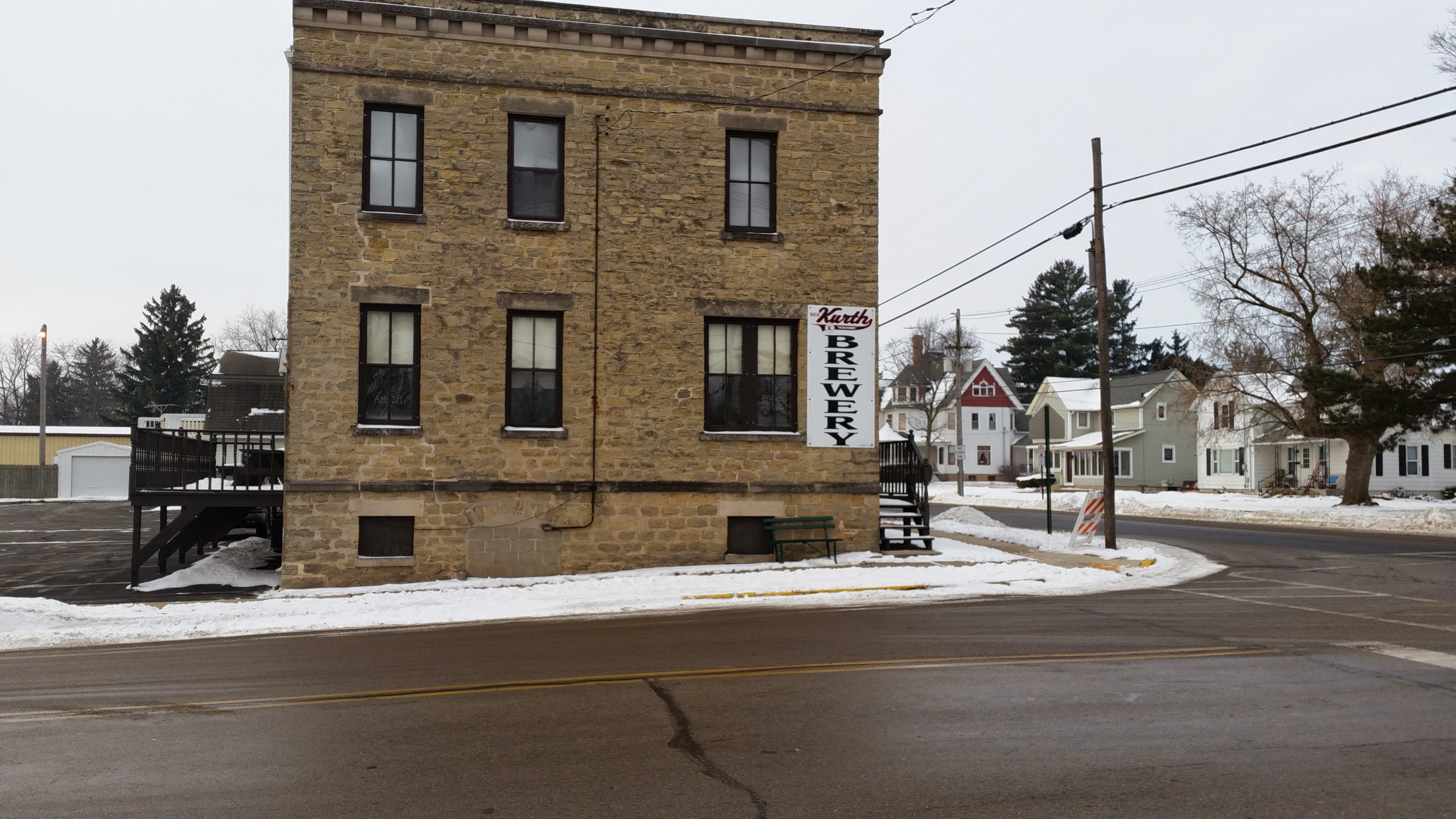 Kurth Brewery National Historic Building Columbus, Wisconsin